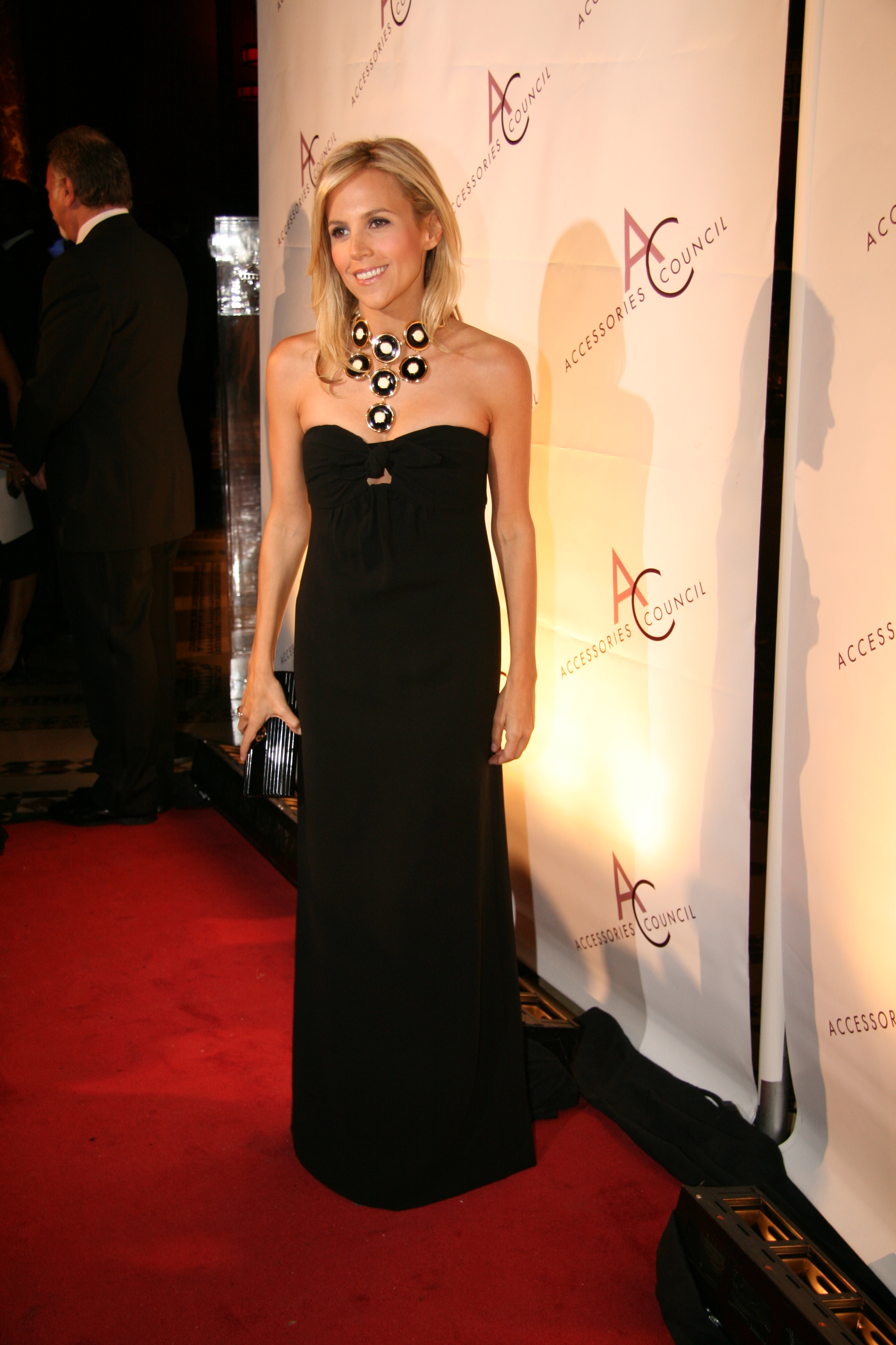 Tory Burch at 2007 Accessories Council of Excellence award ceremony (Held at Cipriani’s 42nd Street in Manhattan)